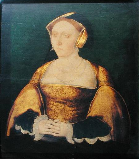 Painting done in 'Cast Shadow Workshop' in 1536, during Jane's first year as Queen.